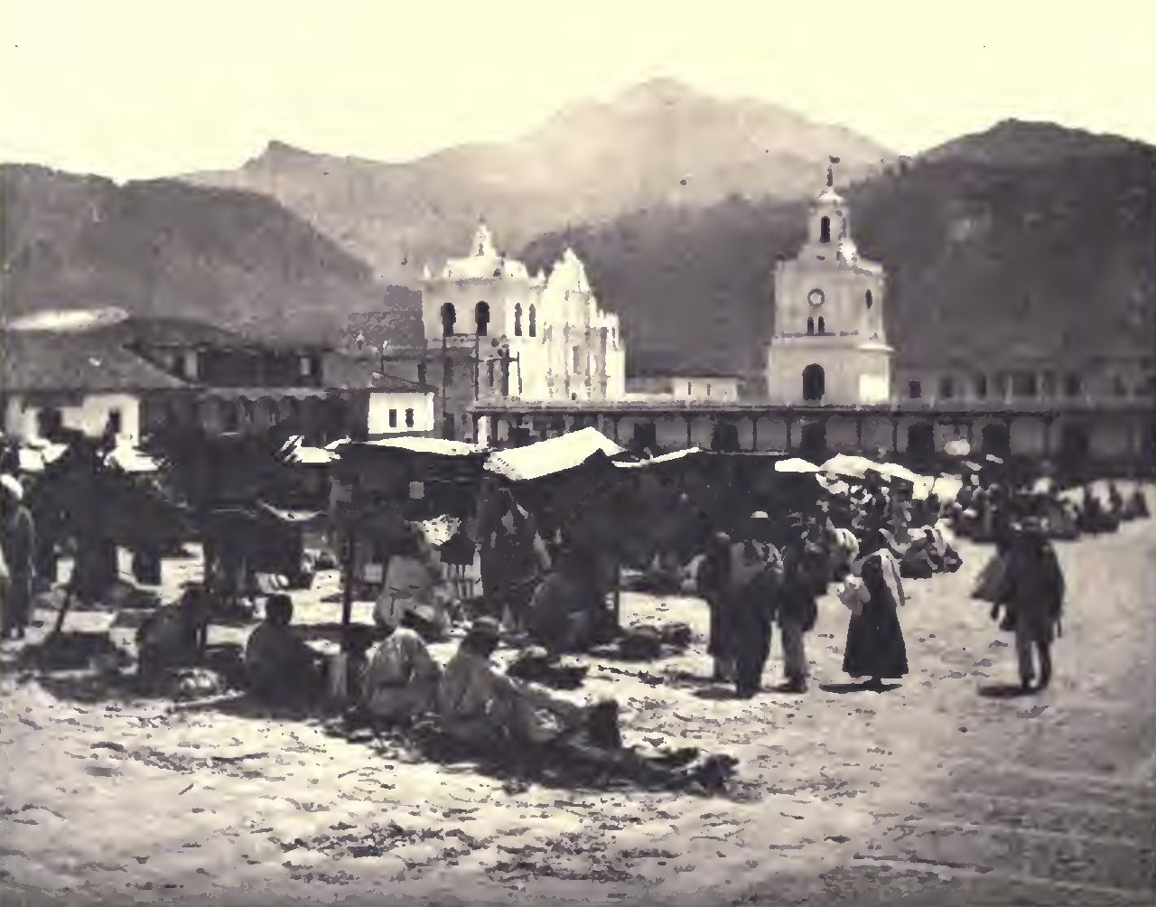 Central park and cathedral of Quetzaltenago, Guatemala, around 1894. Taken from p.79. of A Glimpse at Guatemala and Some Notes on the Ancient Monuments of Central America by Anne Cary Maudslay and Alfred Percival Maudslay, published in 1899.